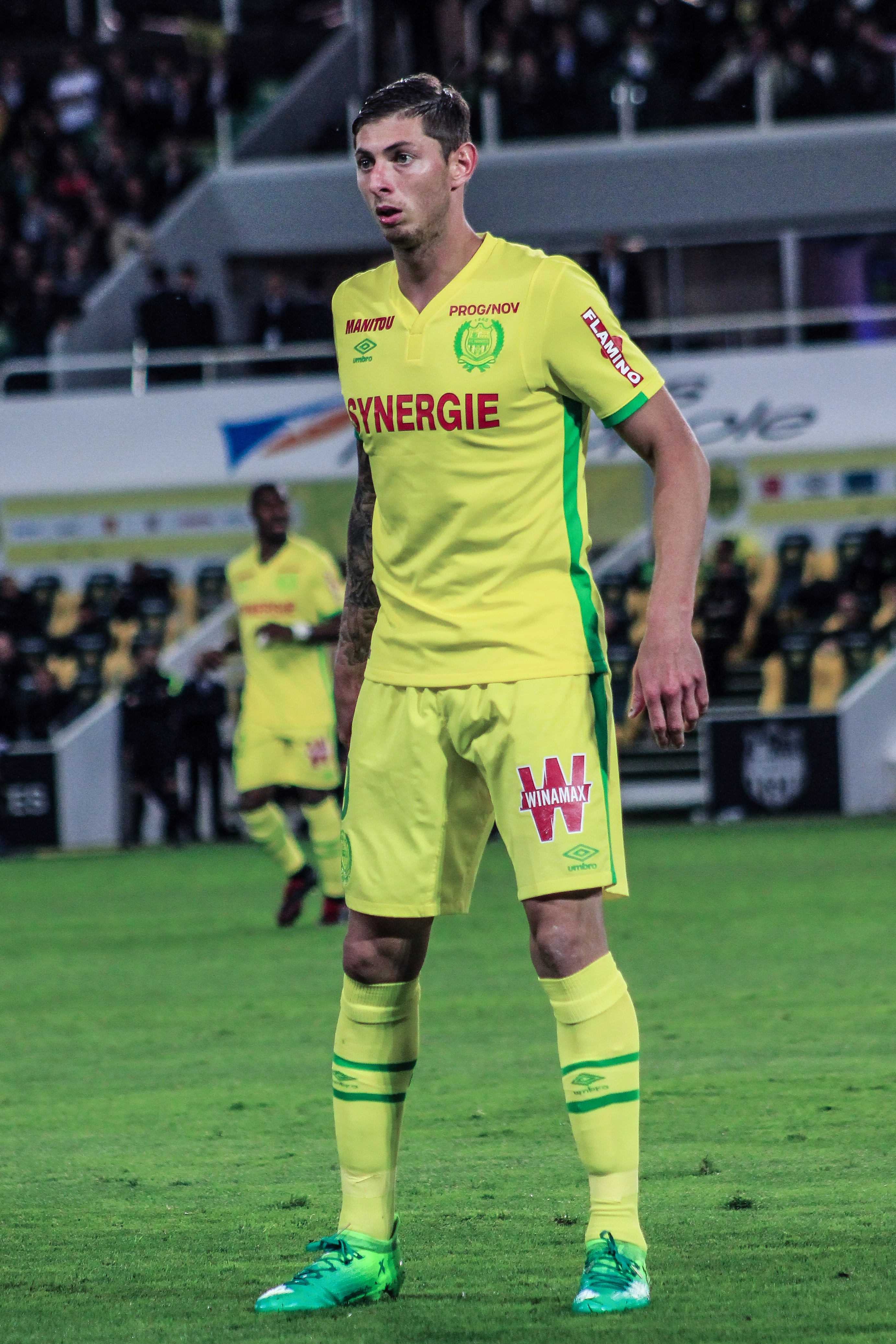 Emiliano Sala in a match against Guingamp. Check uploader's description below.